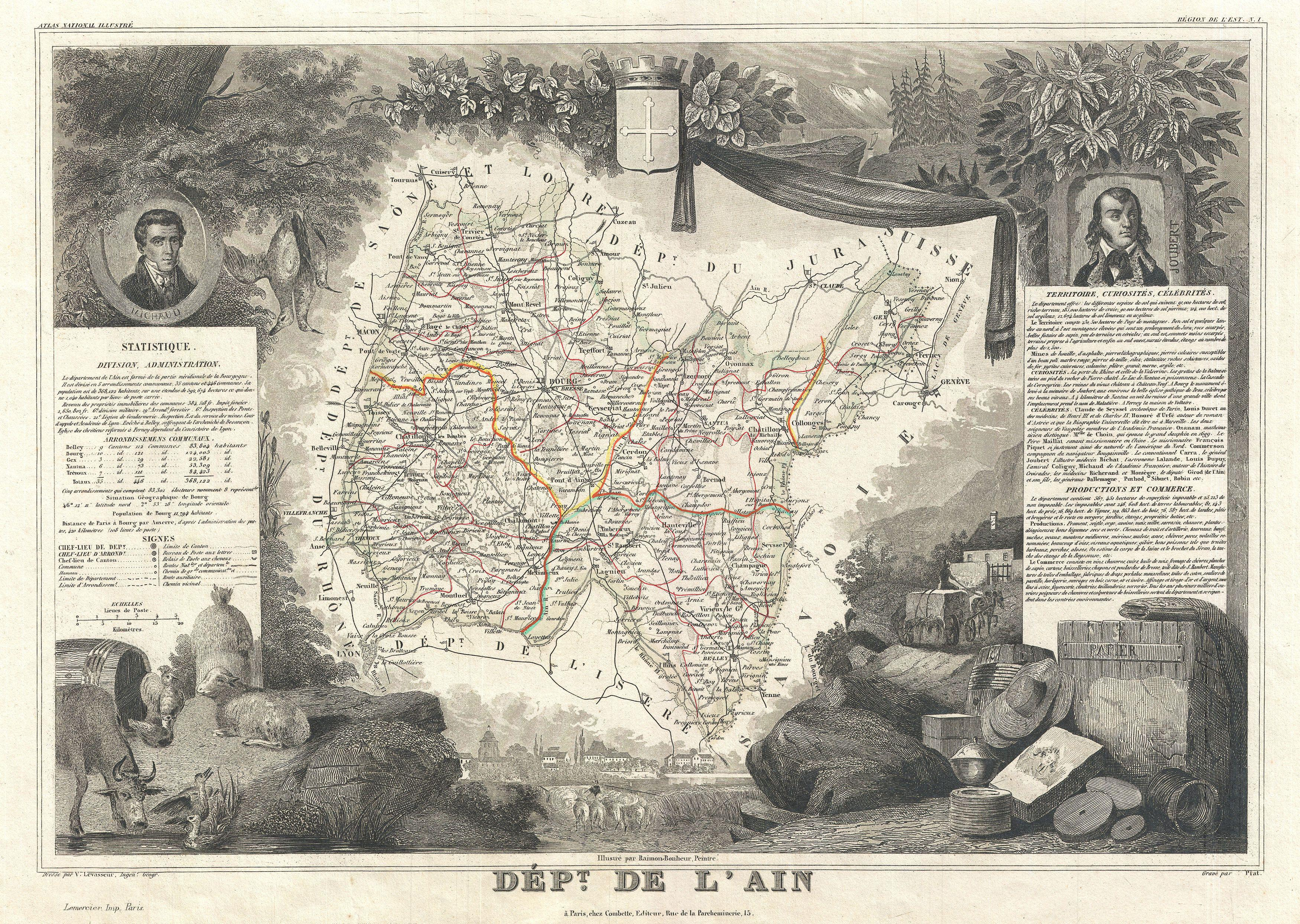 This is a fascinating 1857 map of the French department of l'Ain, France. This area of France is known for its Bugey wines, which are generally aromatic and white. It is also known for its fine blue cheese, poultry, and fisheries. The whole is surrounded by elaborate decorative engravings designed to illustrate both the natural beauty and trade richness of the land. There is a short textual history of the regions depicted on both the left and right sides of the map. Published by V. Levasseur in the 1852 edition of his Atlas National de la France Illustree.